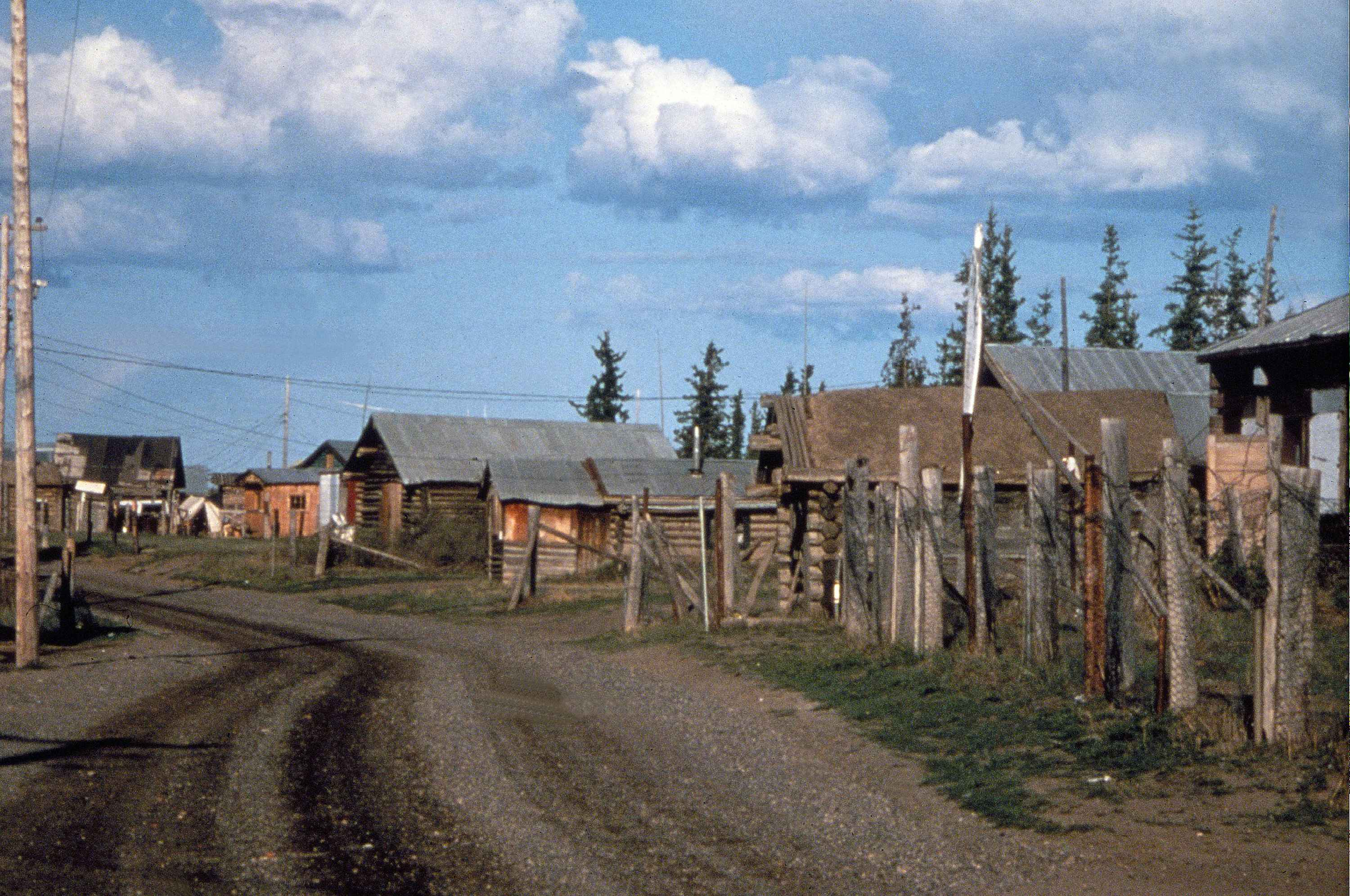 Image title: Fort Yukon village lies within the boundaries of the Yukon flats Image from Public domain images website